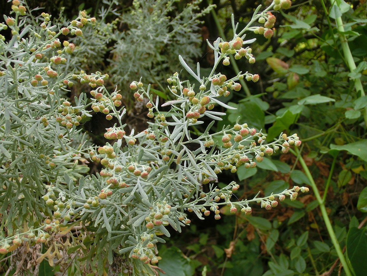 Artemisia thuscula, inflorescence. Tenerife, Rambla de Castro (W of Puerto de la Cruz), near coast, ca. 70 m above sea level.